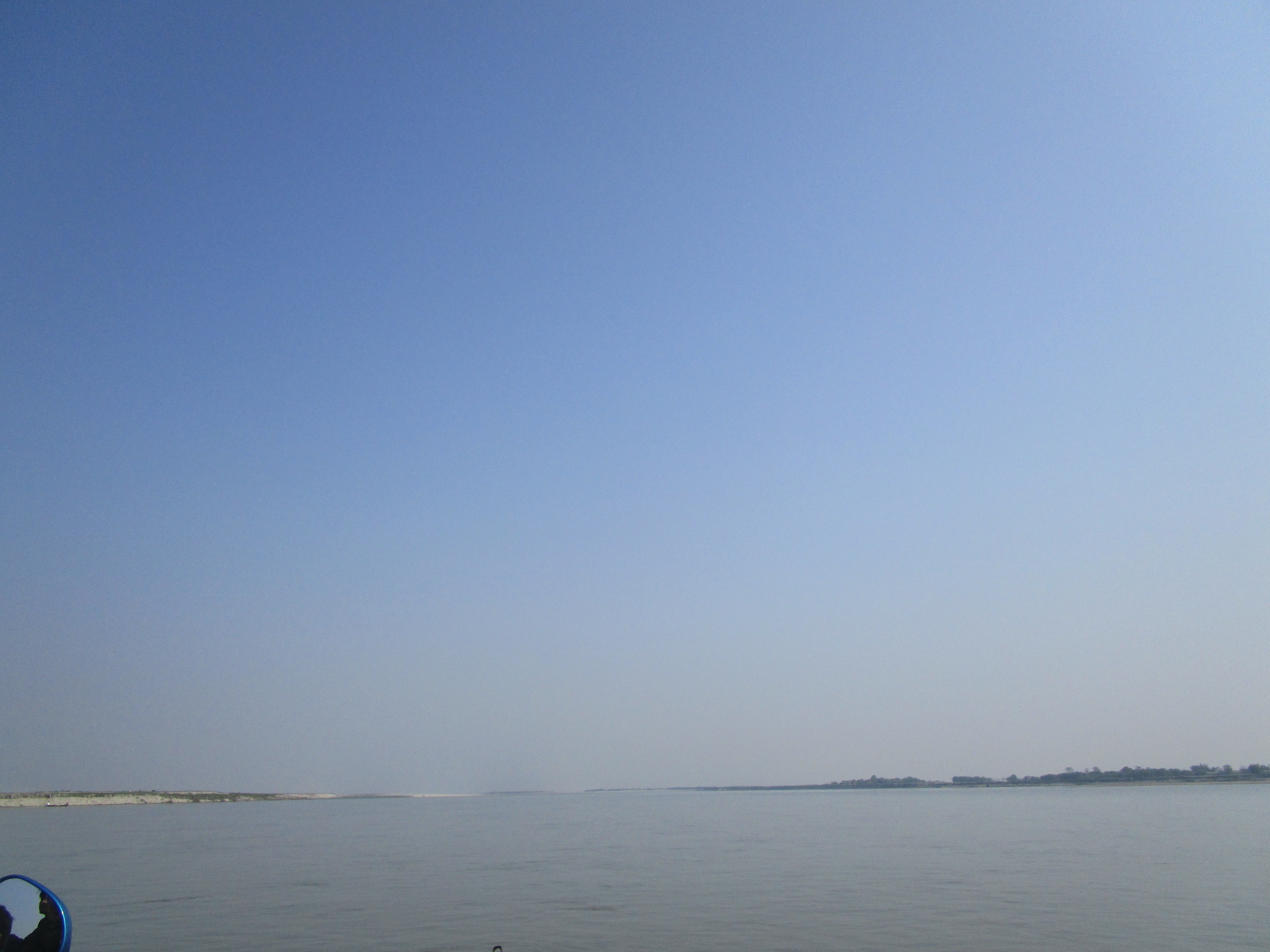 River Brahmaputra at Dhubri near Jogmaya Ghat.